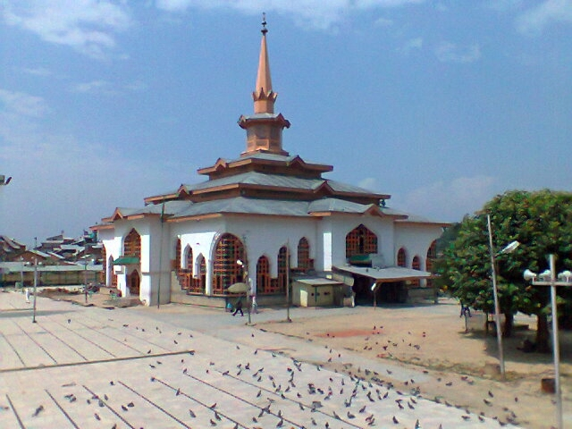 Sheikh Noor-ud-din Wali Chari sherif